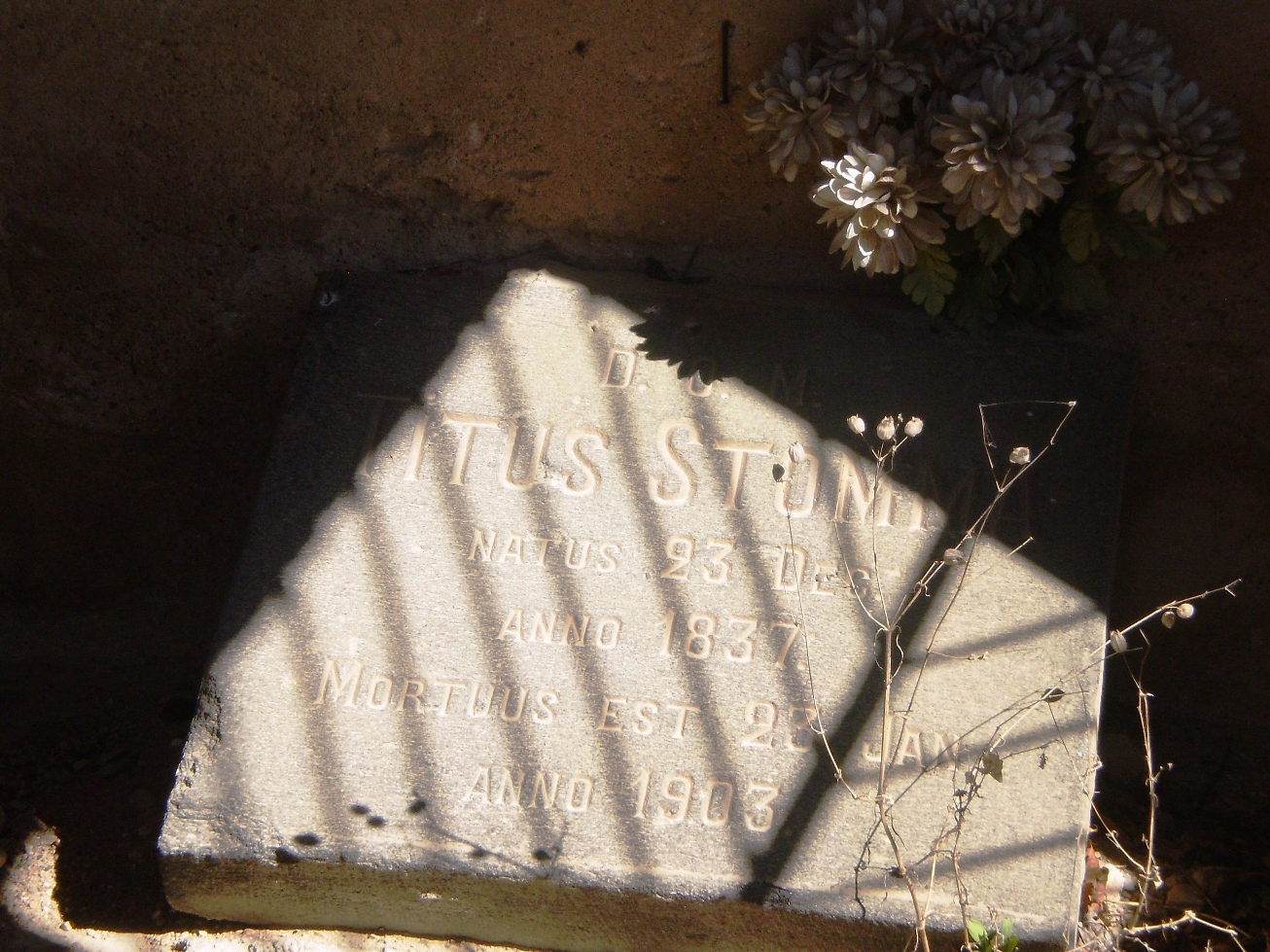 Tomb of Titus Stomma, cemetery of Aukupėnai, Kėdainiai dst., Lithuania